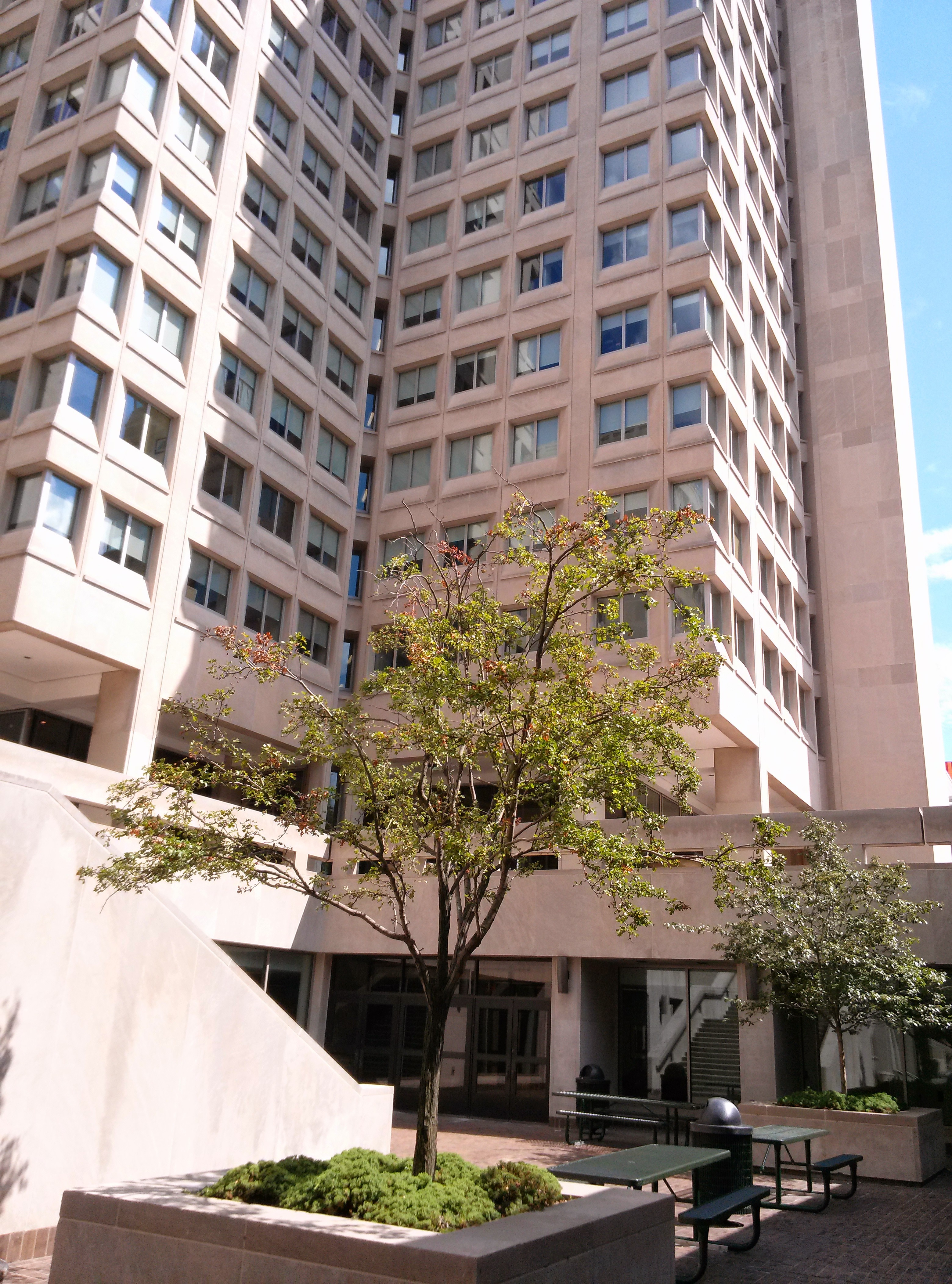 Anderson Hall, Temple University